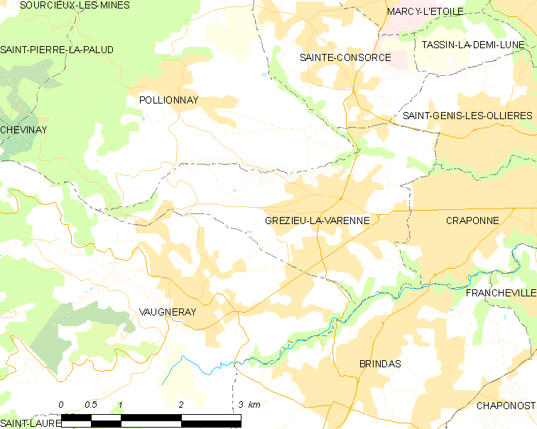 Map of French municipality